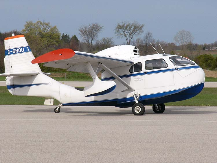 I took this photo at Hanover Ontario 30 April 2006